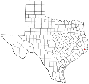 Locator maps U.S. cities derived from state maps by different users from en.wikipedia. the filename has sometimes been adapted to the general syntax